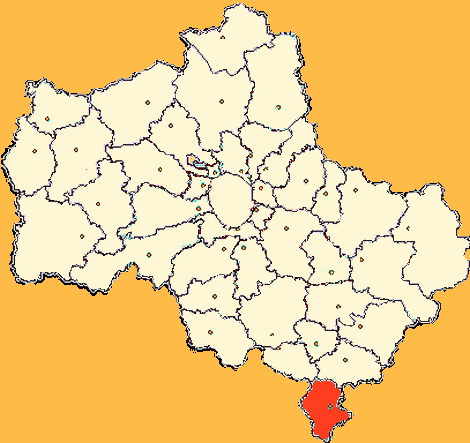 Moscow Region map by Al Silonov